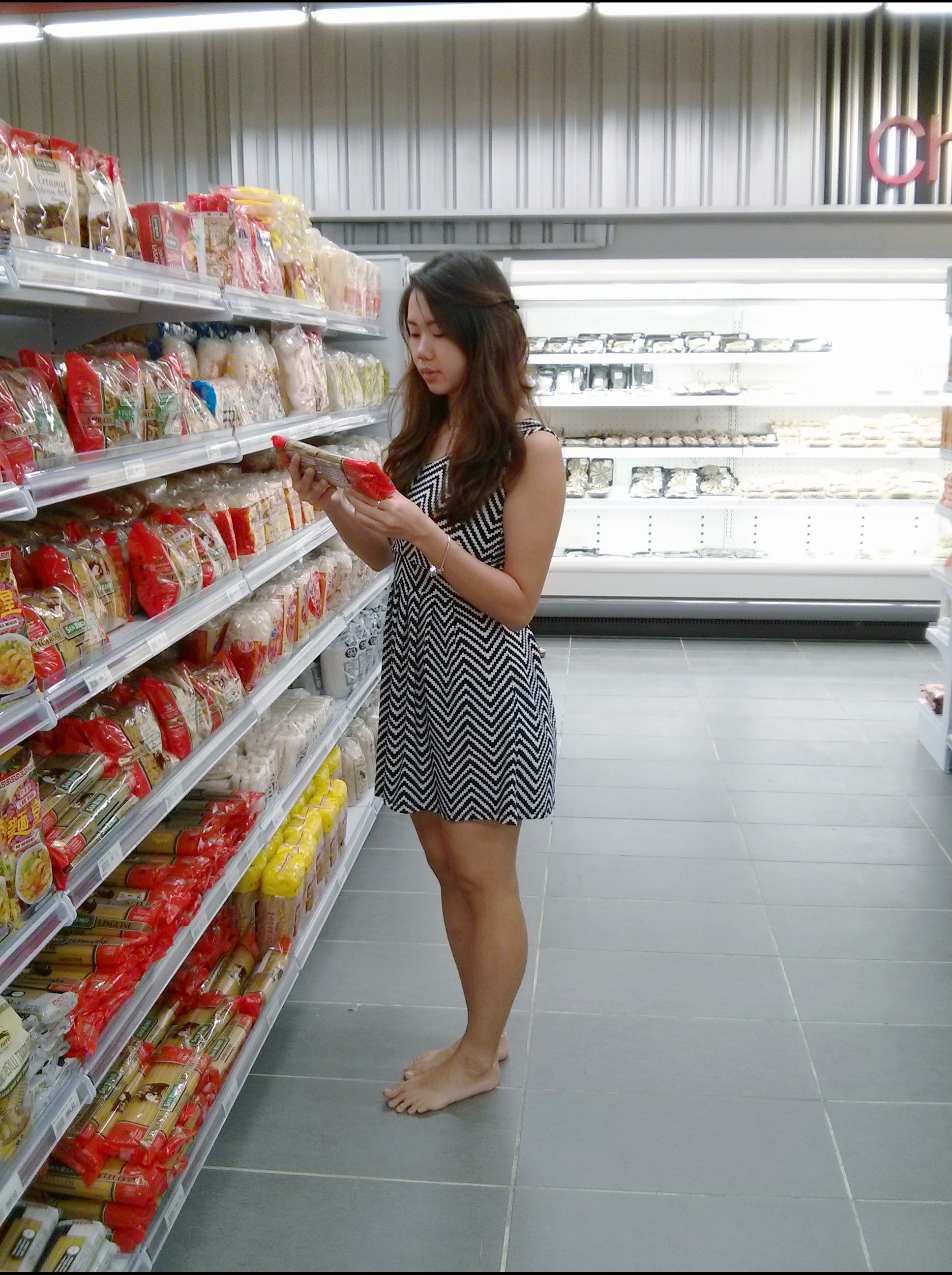 barefoot women in supermarket